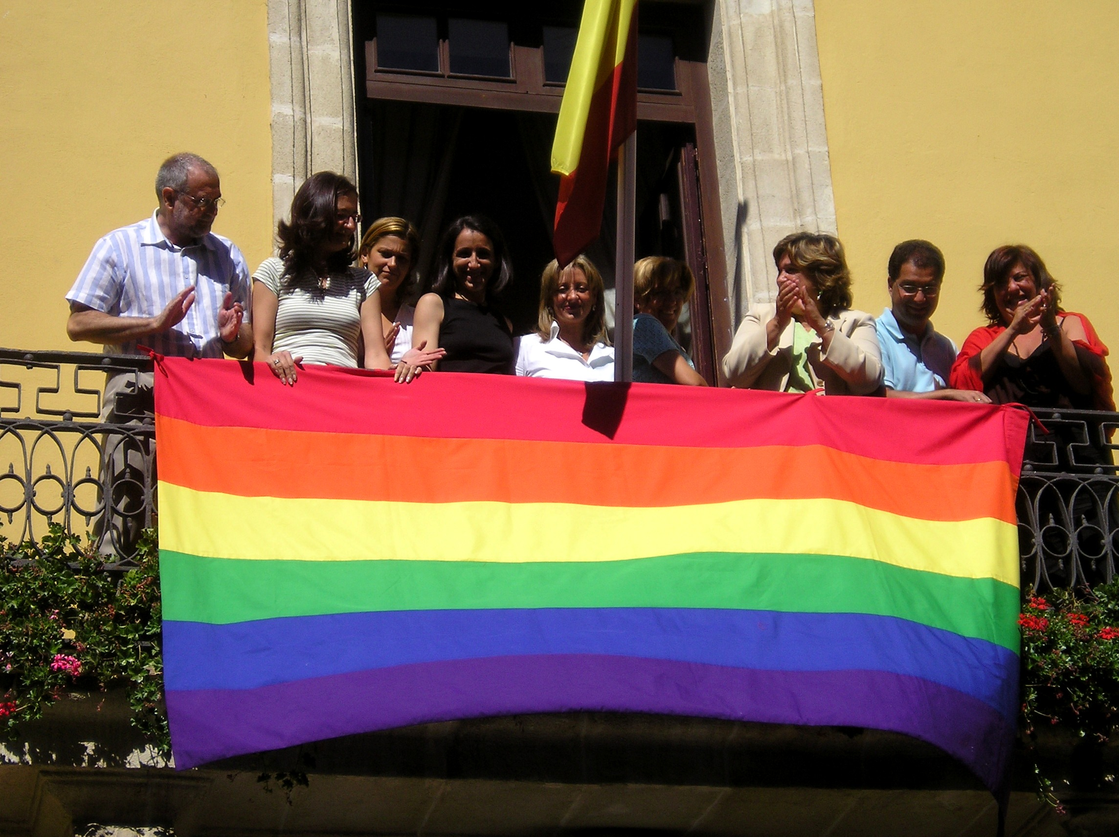 Rainbow flag Jerez Spain City Hall 2005